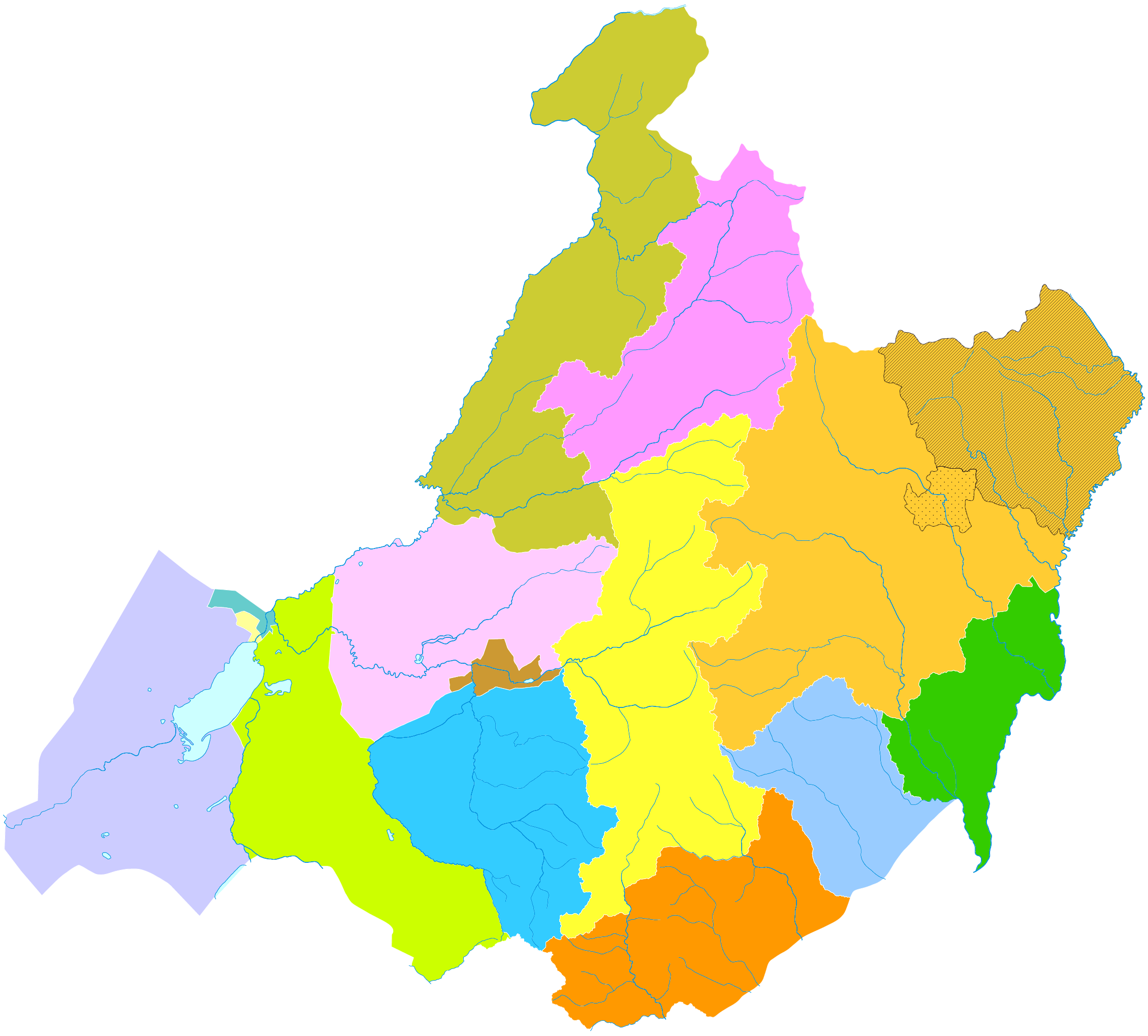 administrative divisions of Hulunbuir City, Inner Mongolia, China